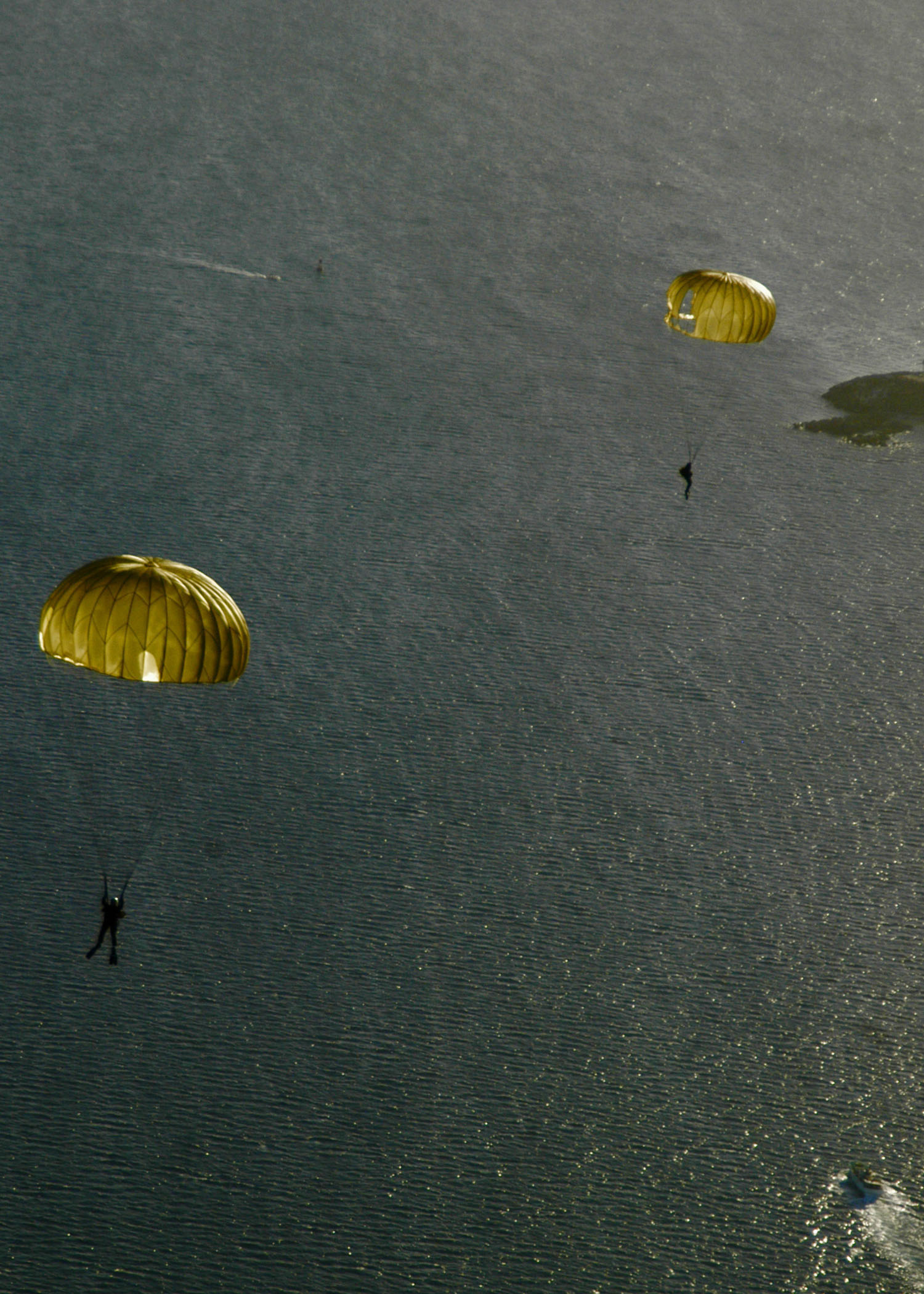 Images from Valiant Shield - public domain as original creations of the United States government. Uploaded by Johntex Sailors from the Navy Special Warfare (NSW) community, Explosive Ordnance Disposal (EOD) technicians and Navy SEALs conduct a static-line parachute jump off the coast of Guam from HH-60H helicopters. HS-2, part of Carrier Air Wing (CVW) 2, embarked on USS Abraham Lincoln (CVN 72), is currently ashore on the island of Guam operating with a detachment of HS-14 “Chargers” in support of Exercise Valiant Shield. Exercise Valiant Shield 2006 is the largest Pacific joint exercise in recent history. Held off the coast of Guam, it involves 28 naval vessels including three carrier strike groups. More than 300 aircraft and approximately 20,000 service members from the Navy, Army, Air Force, Marine Corps and Coast Guard are also participating in the exercise. U.S. Navy photo by Photographer's Mate 3rd Class M. Jeremie Yoder Parachuting, Valiant Shield